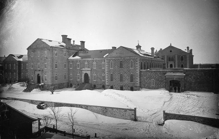 Photograph, St. Vincent de Paul penitentiary, St. Vincent de Paul, QC, 1884, Wm. Notman & Son, Silver salts on glass - Gelatin dry plate process b- 20 x 25 cm